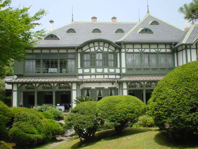 West Japan Industrial Club, Tobata ward, Kitakyushu Taken and uploaded by Ian Ruxton (Historian)